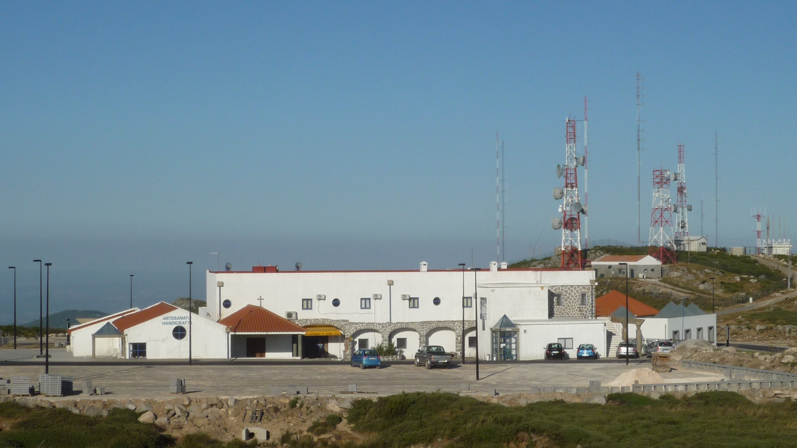 The summit of Fóia, Algarve at 37°18′53″N 8°35′46″W / 37.314795°N 8.596244°W